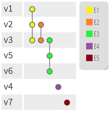 An alternative representation of hypergraph. Edges are represented as vertical lines connecting the set of vertices. Vertices are aligned on the left.